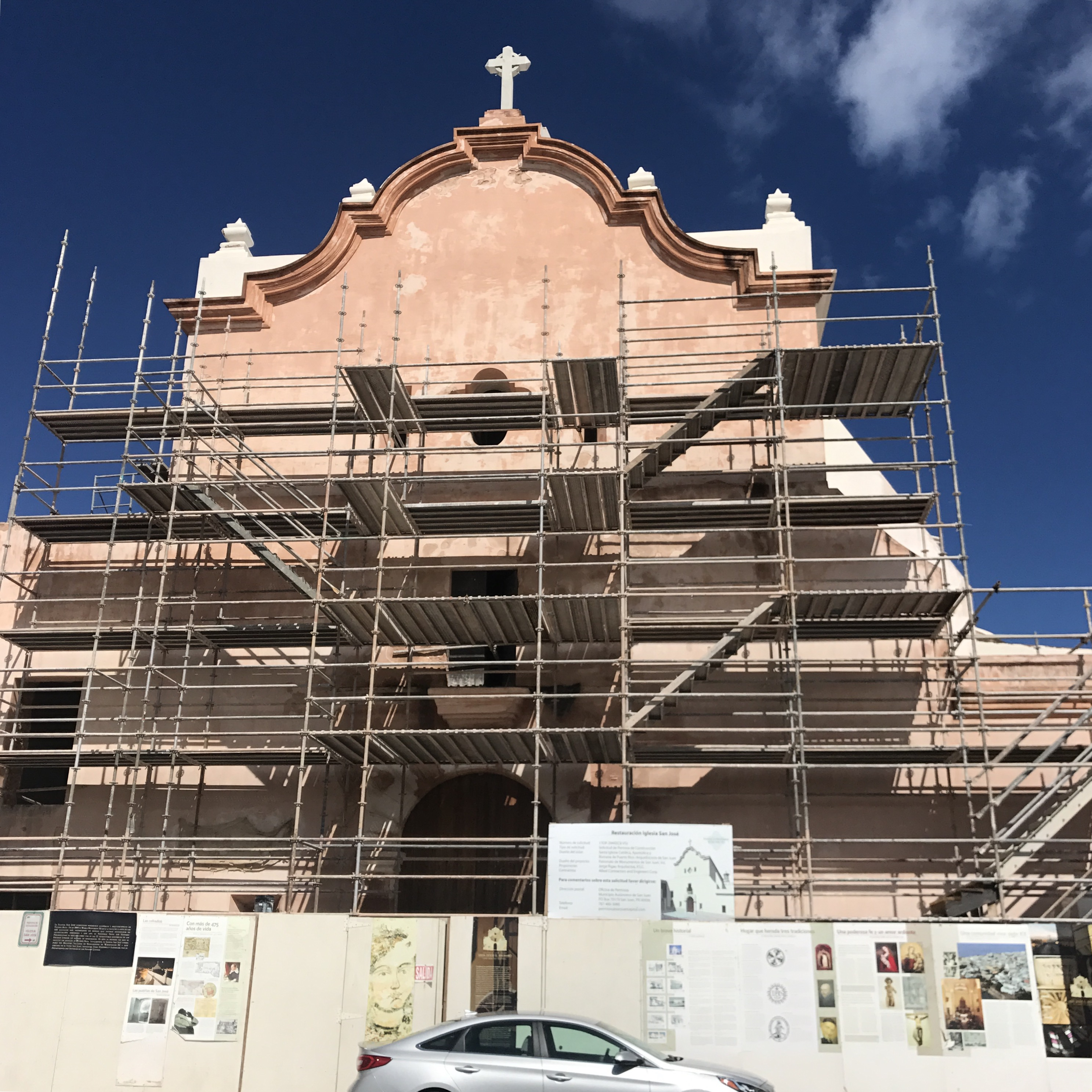 The San José Church undergoing restoration in early 2018.